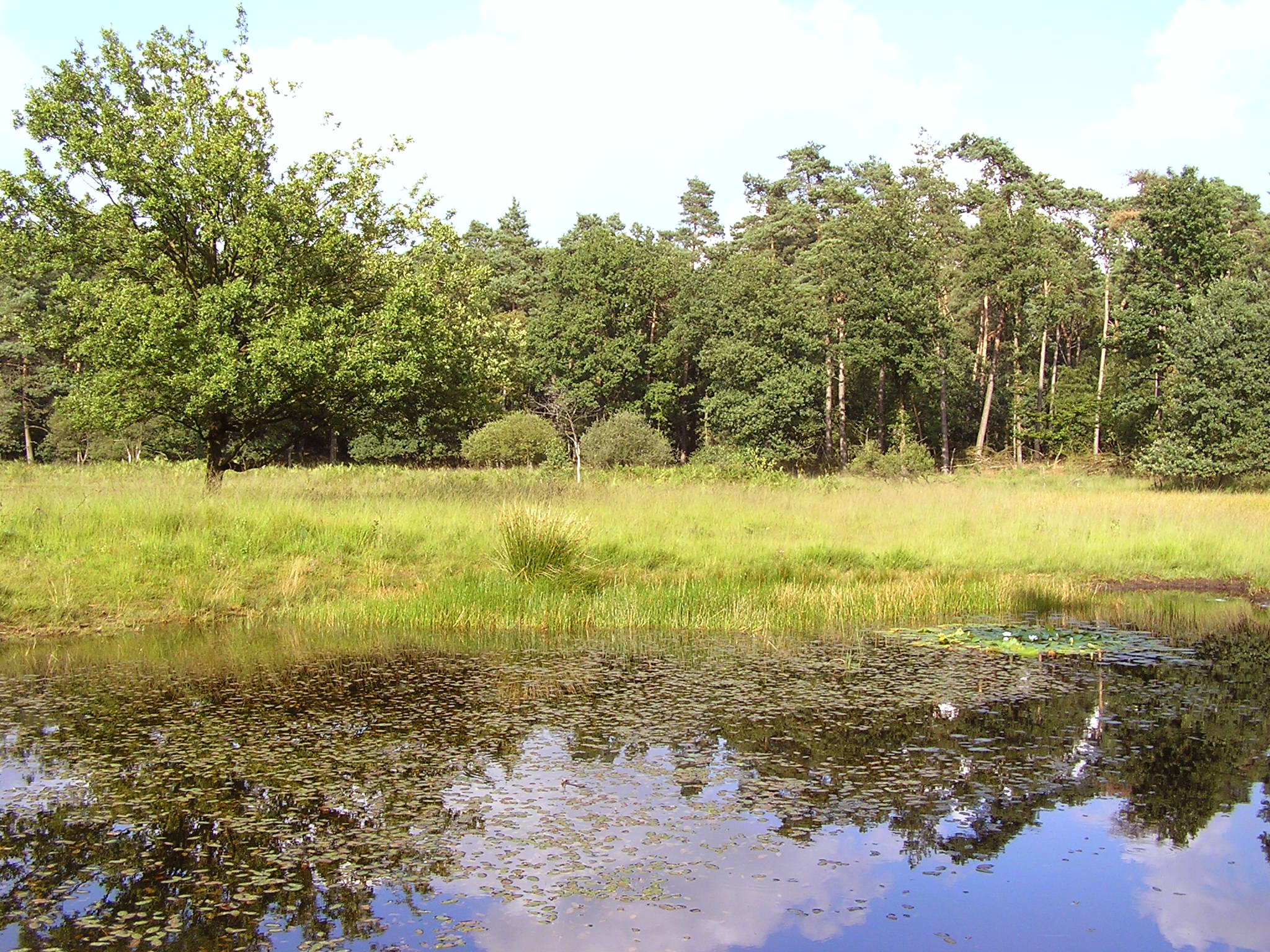 Bog "Schwarzes Venn" in the nature reserve "Deutener Moor", Dorsten, Germany